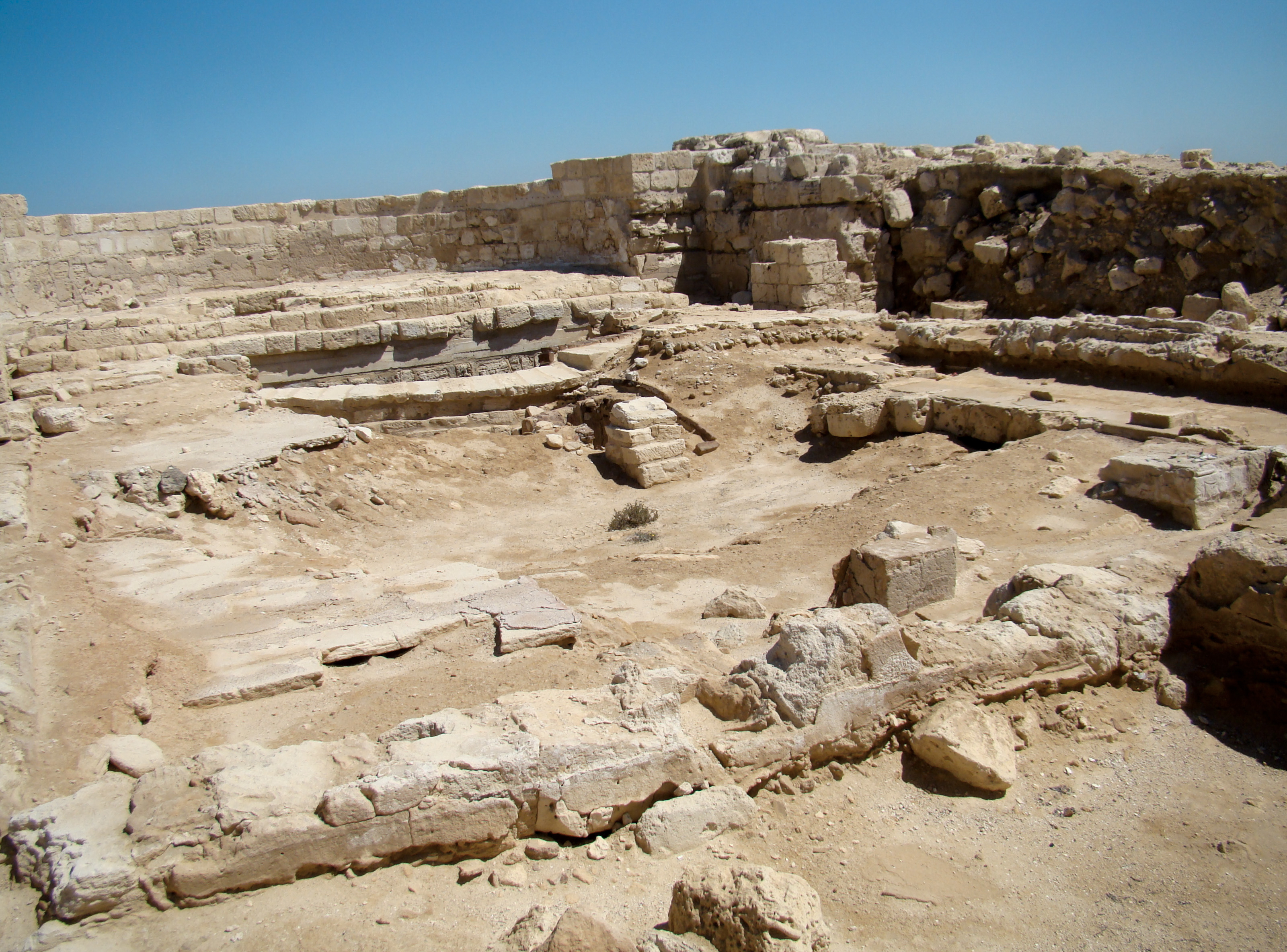 The ruins of Marea are located approximately 45km west of Alexandria on the southern shore of Lake Maryut (31°07′ N, 29°55′ E), just west of the Nile Delta. The name of the town, which was used in antiquity to refer to the lake and to the district as well, is a Latin derivative of the Greek "Mareotis," a toponym probably derived from the Egyptian root mrt (canal, artificial lake) or mryt (bank, shore, quay; plural mrw, harbors). The Arabic name of the lake is almost certainly based on that root as well. The site was identified as the ancient town as early as 1872 by M.Pasha el-Falaki, and was briefly described (with a sketch map) by Anthony de Cosson and others, such as Hermann Kees. Excavations, directed by Fawzi el-Fakharani of the University of Alexandria, were initiated in 1977. A Boston University group participated in three seasons of investigation (1979-81), mapping the lakeside portion of the site and conducting additional excavations.